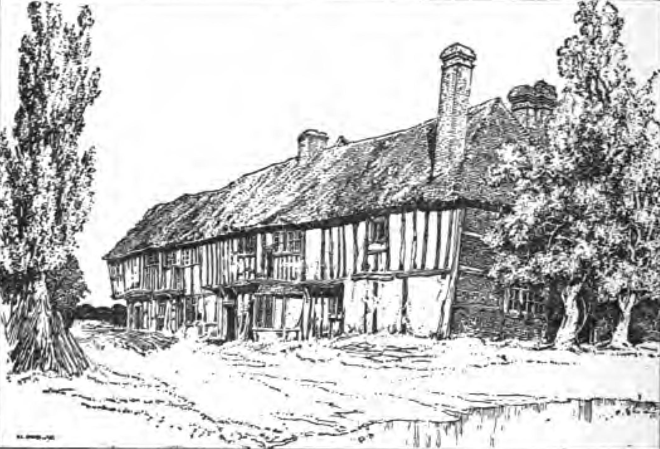 Court Lodge, Udimore. Book about the Highways and Byways of Co. Sussex, England